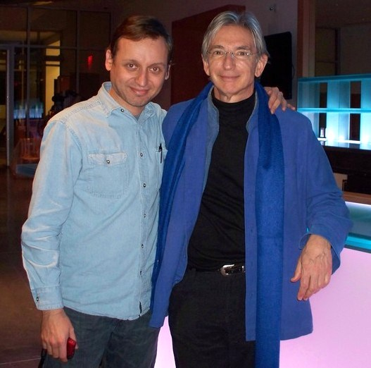 Michael Tilson Thomas and reporter Horacio Cambeiro in Miami Beach